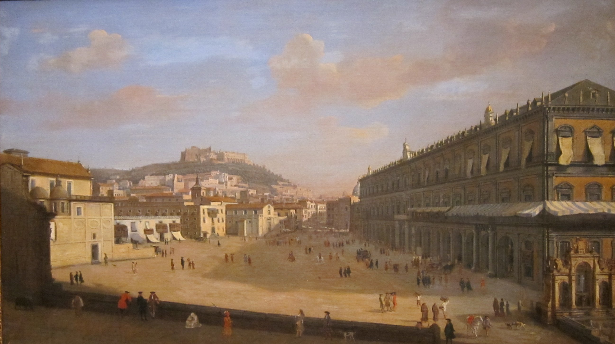 View of the Royal Palace at Napleslabel QS:Len,"View of the Royal Palace at Naples"